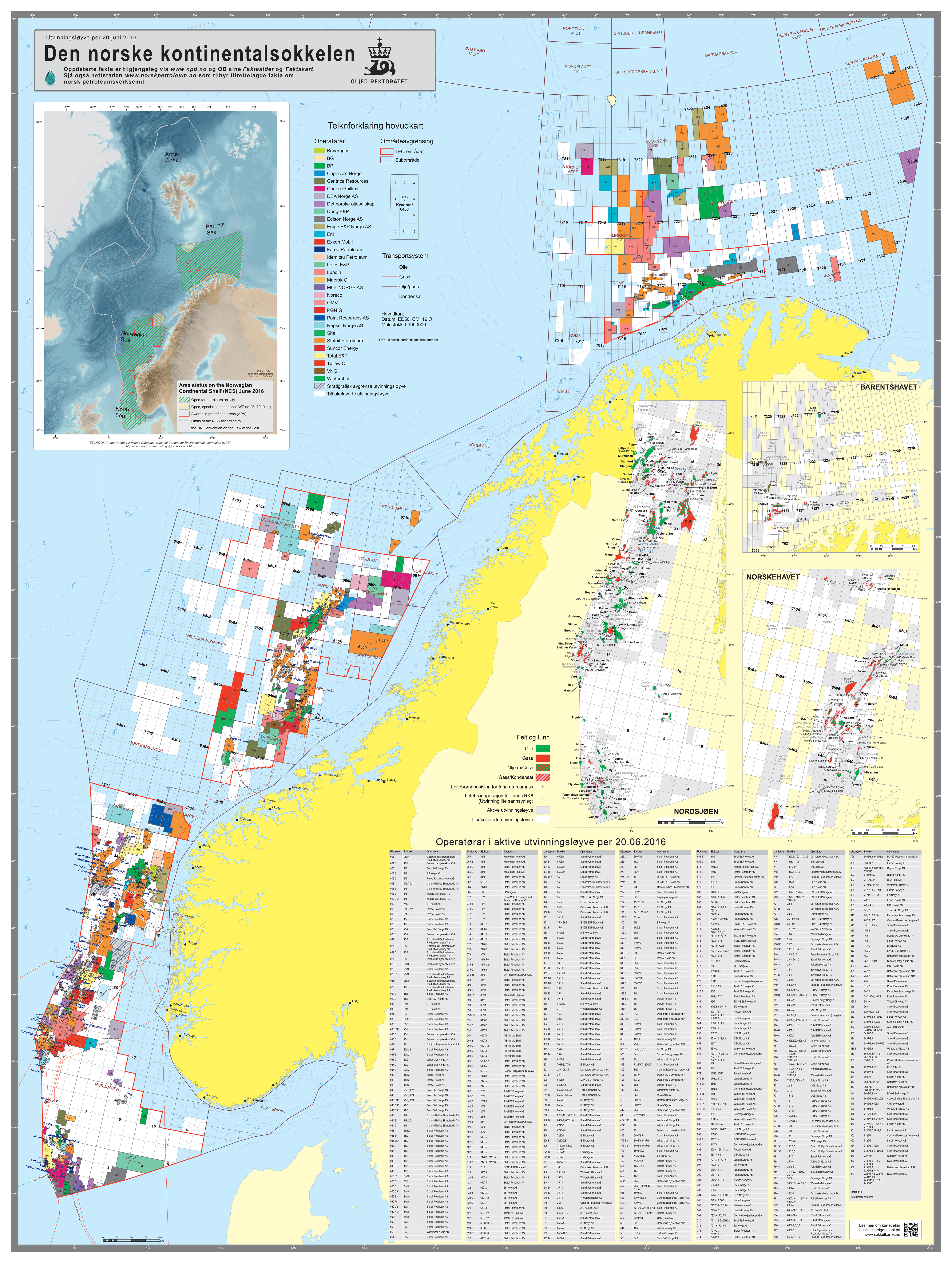 The map of "The Norwegian continental shelf" that shows all fields, discoveries, areas awarded and areas that have been opened for exploration activities as of June 20th, 2016. The author of the map, Norwegian Petroleum Directorate has large amounts of public data about petroleum activities on the Norwegian continental shelf and freely share them with everyone both on electronic and paper versions.